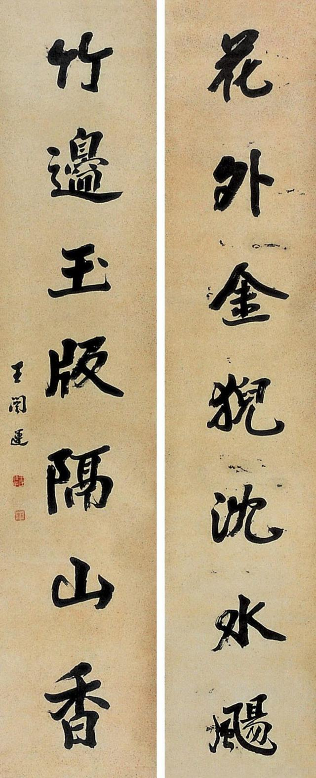 Chinese couplets written by Wang Kaiyun